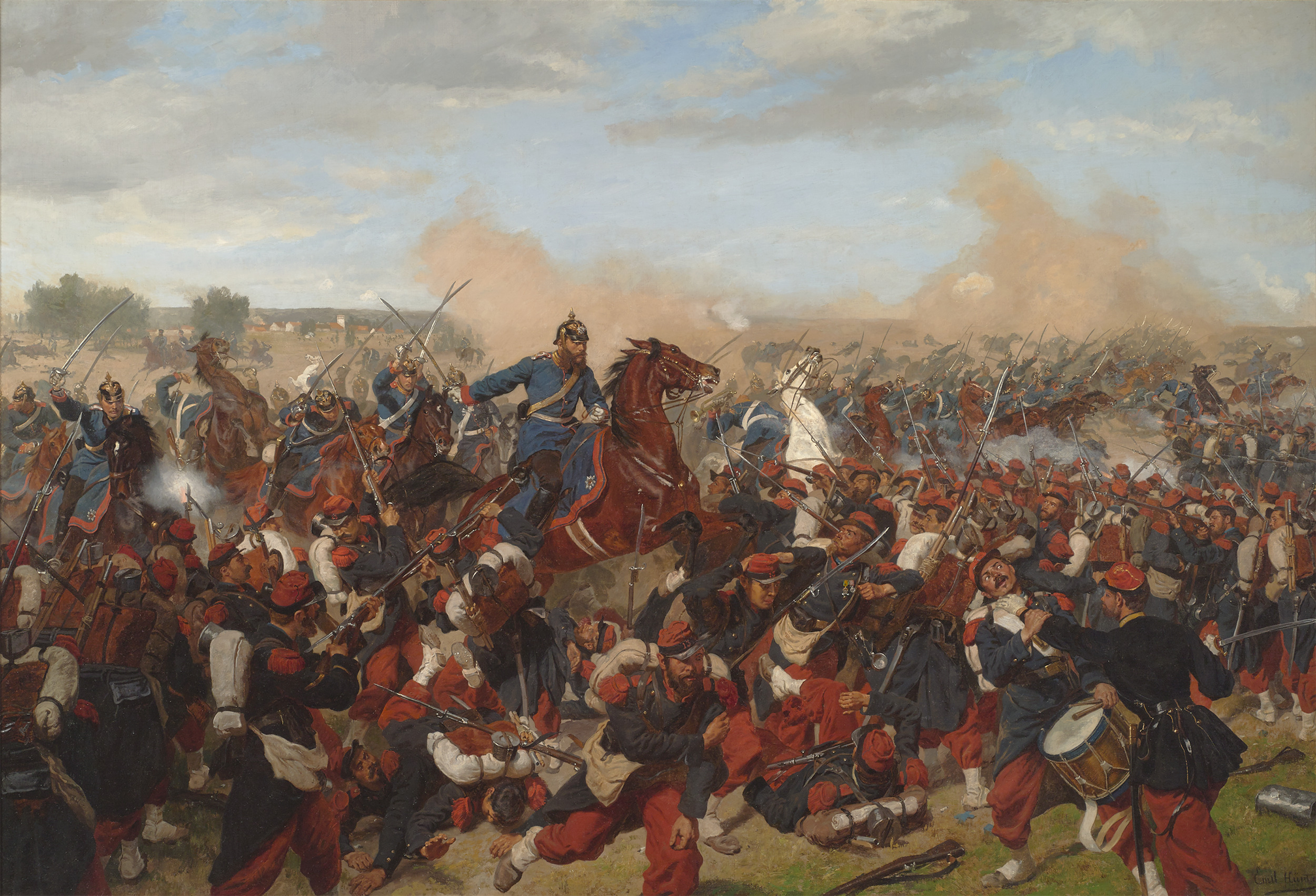 Battle of Mars-La-Tour, August 16,1870 by Emil Hünten. Circa 1870